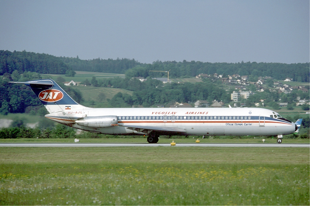 A McDonnell Douglas DC-9 of JAT Yugoslav Airlines at Zurich Airport